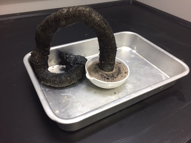 A long snake-like shape of carbon formed during the experiment.